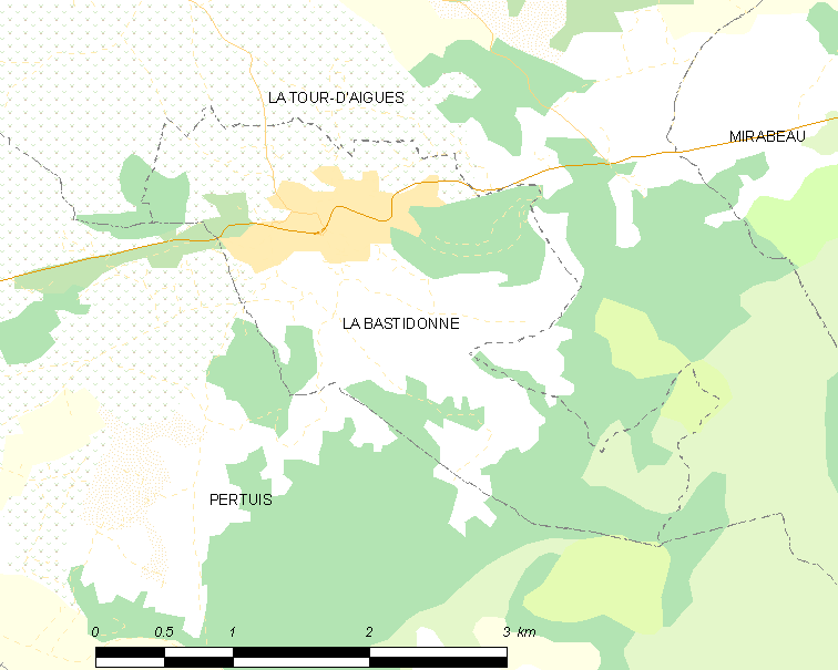 Map of French municipality La Bastidonne